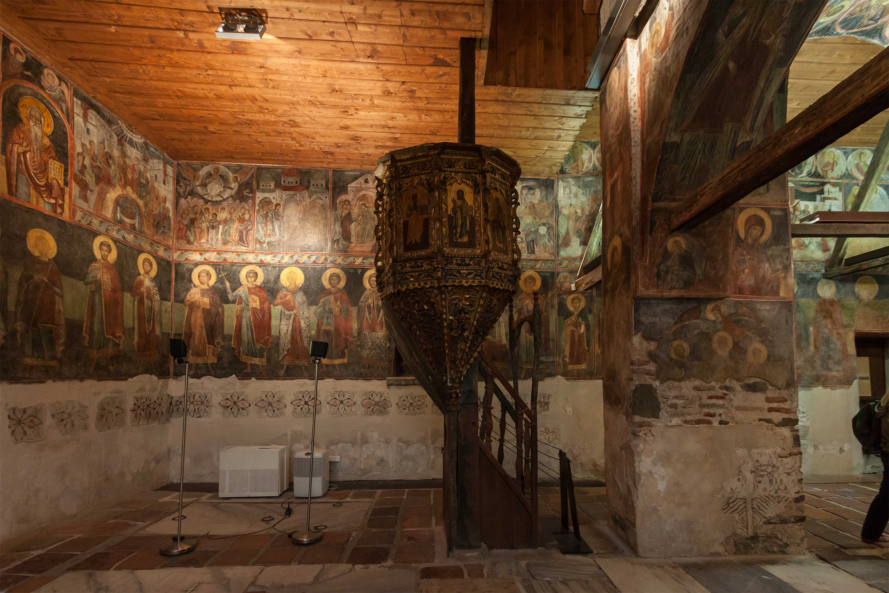 Nesebar. Interior of the Church of St Stephen.